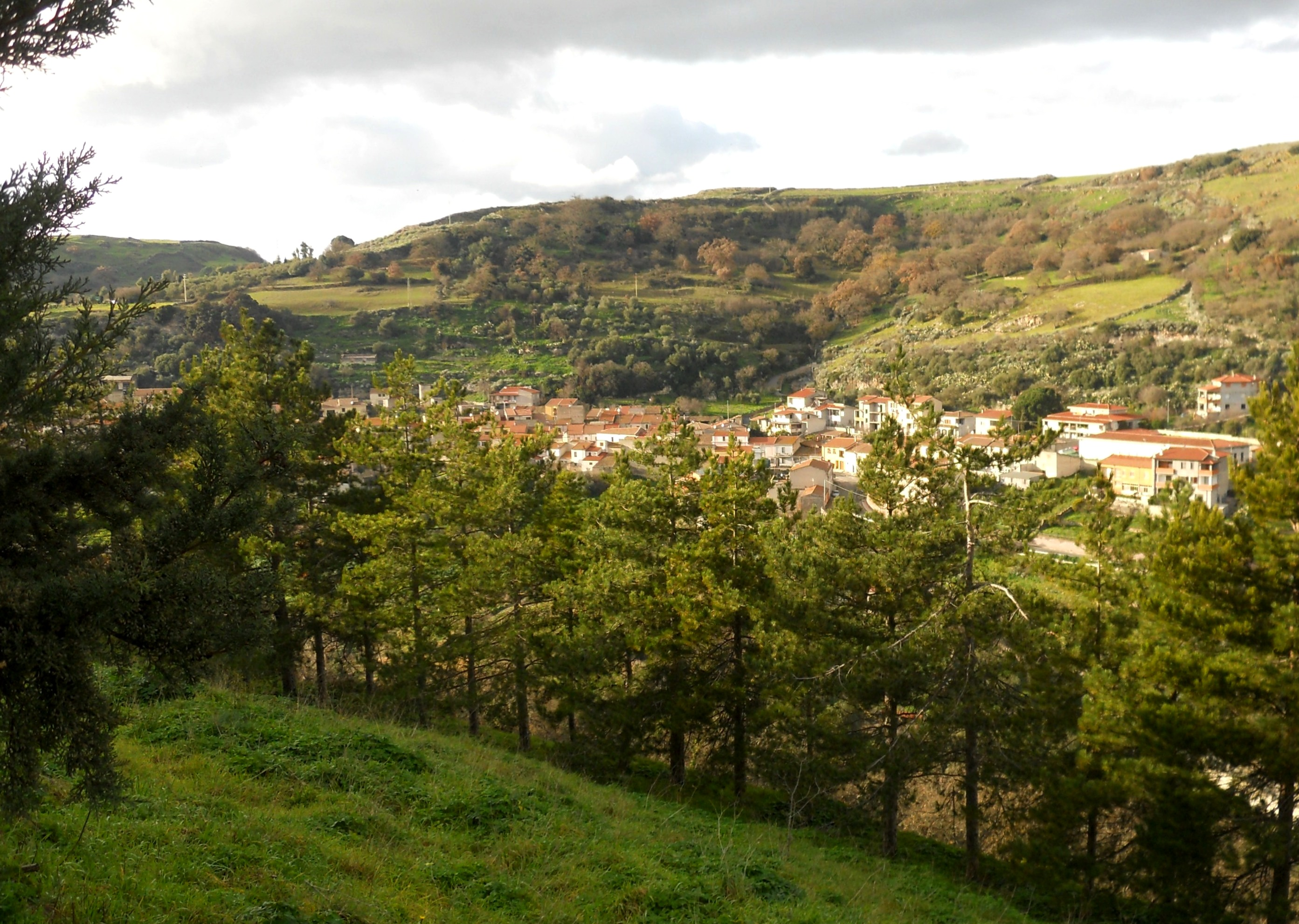 Borutta da San Pietro